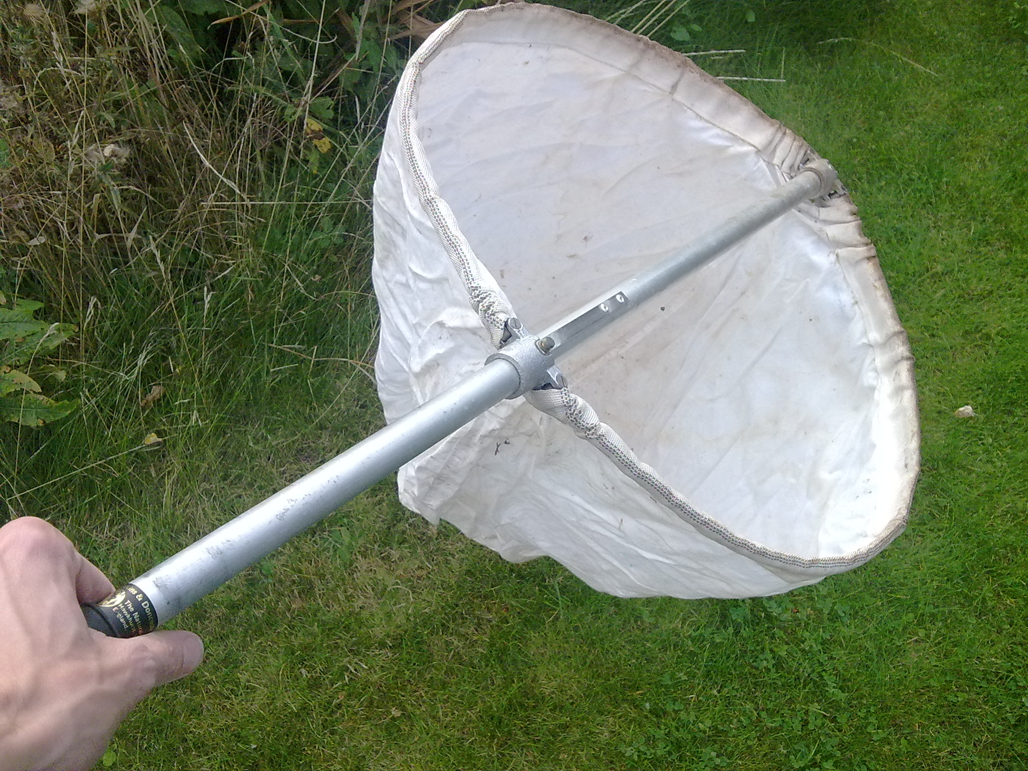 A sweep net is used to collect insects from long grass. The frame and bag are more heavy duty than the lighter butterfly net.